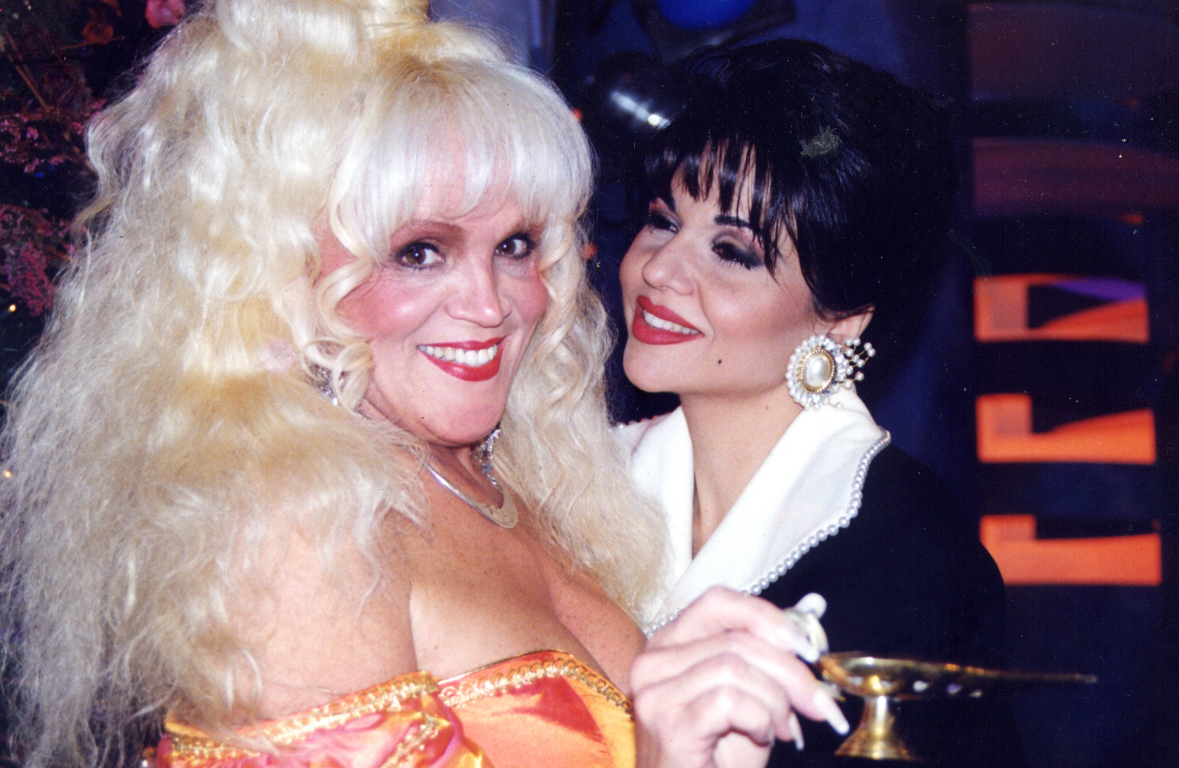 Sonia Benezra and JoJo Savard during Halloween episode of Sonia Benezra Show on TQS in 1997.